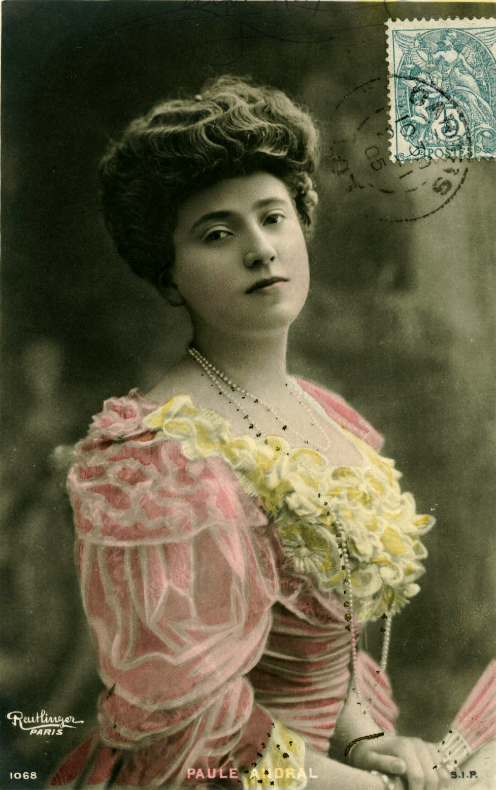 Paule Andral, French actress, SIP 1068.